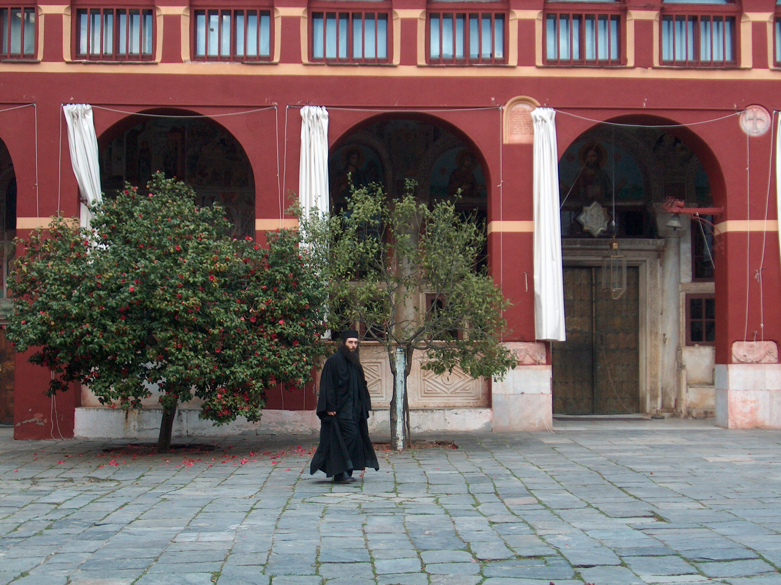 Orthodox monk in the Vatopedi monastery, Mount Athos.